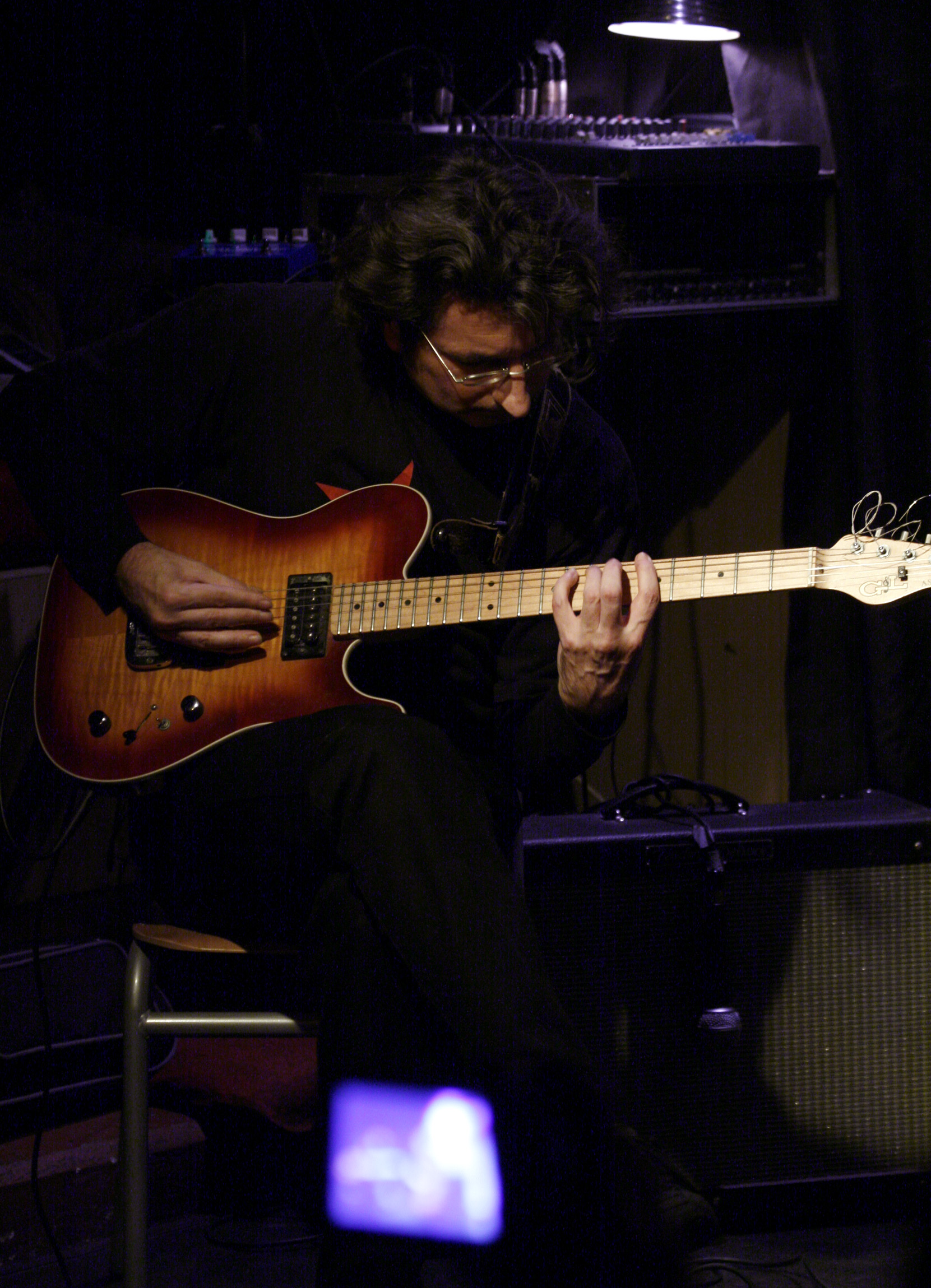 Andy Manndorff during a session with Lisle Ellis (b.) and Wolfgang Reisinger (dr.) at the Blue Tomato in Vienna (Austria).